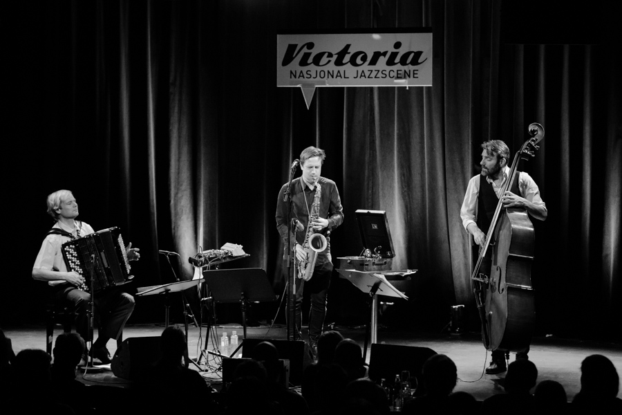 Håkon Kornstad at Victoria Teater. The concert took place on 01. March 2018 in Oslo. Lineup: Håkon Kornstad (saxophone and vocal), Frode Haltli (accordion) and Mats Eilertsen (double bass).